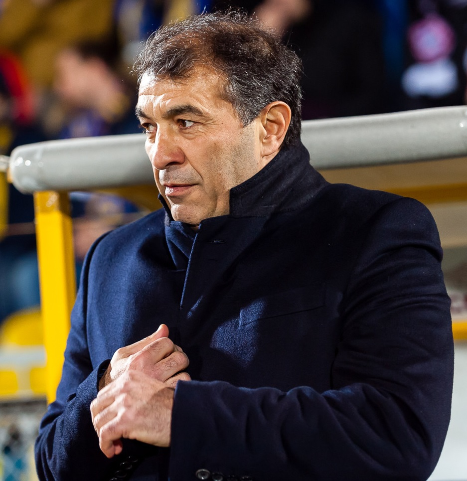 Rashid Rakhimov managing FC Terek Grozny in a game against FC Rostov.